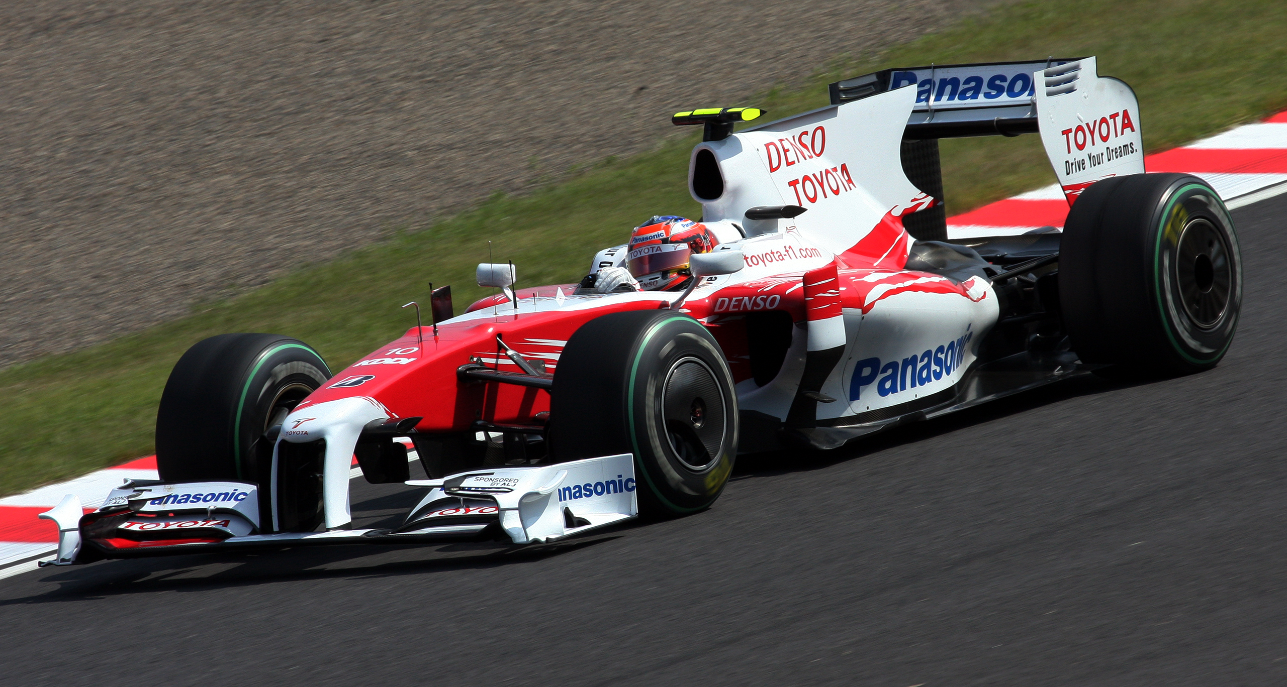 Formula One 2009 Rd.15 Japanese GP: Timo Glock (Toyota) running in Saturday 3rd Free Practice session at the 2009 Japanese Grand Prix.